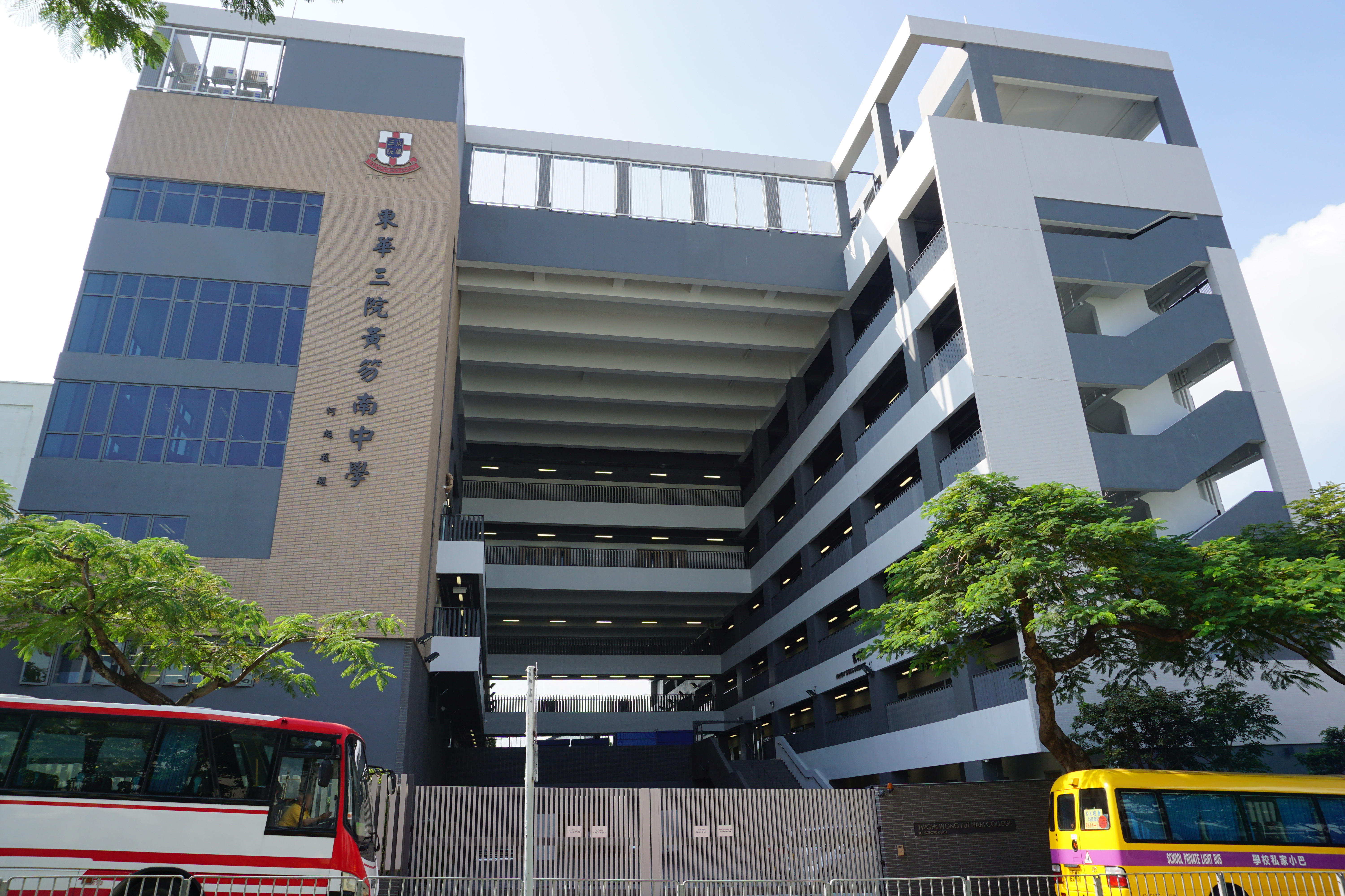 Tung Wah Group of Hospitals Wong Fut Nam College in Kowloon Tsai, Hong Kong.